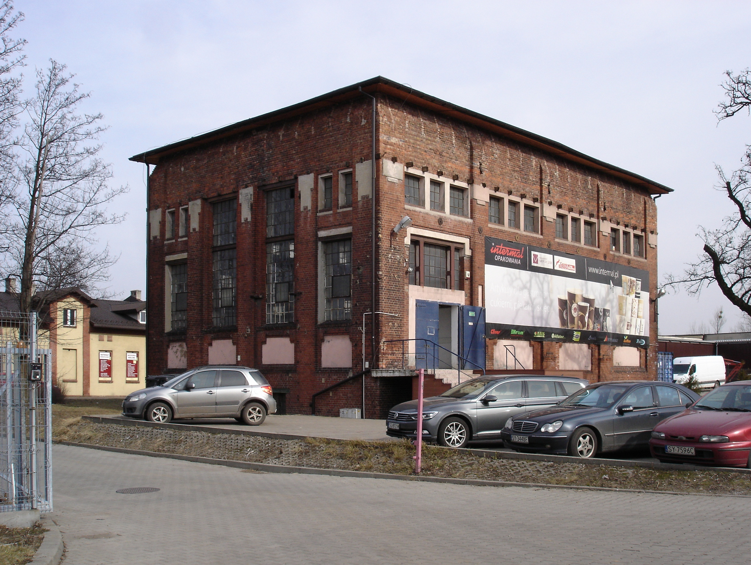 Winding machine house of Wyzwolenie I shaft (Nordfeldschacht I), coal mine Wyzwolenie (Königsgrube Nordfeld) in Chorzów, Poland.